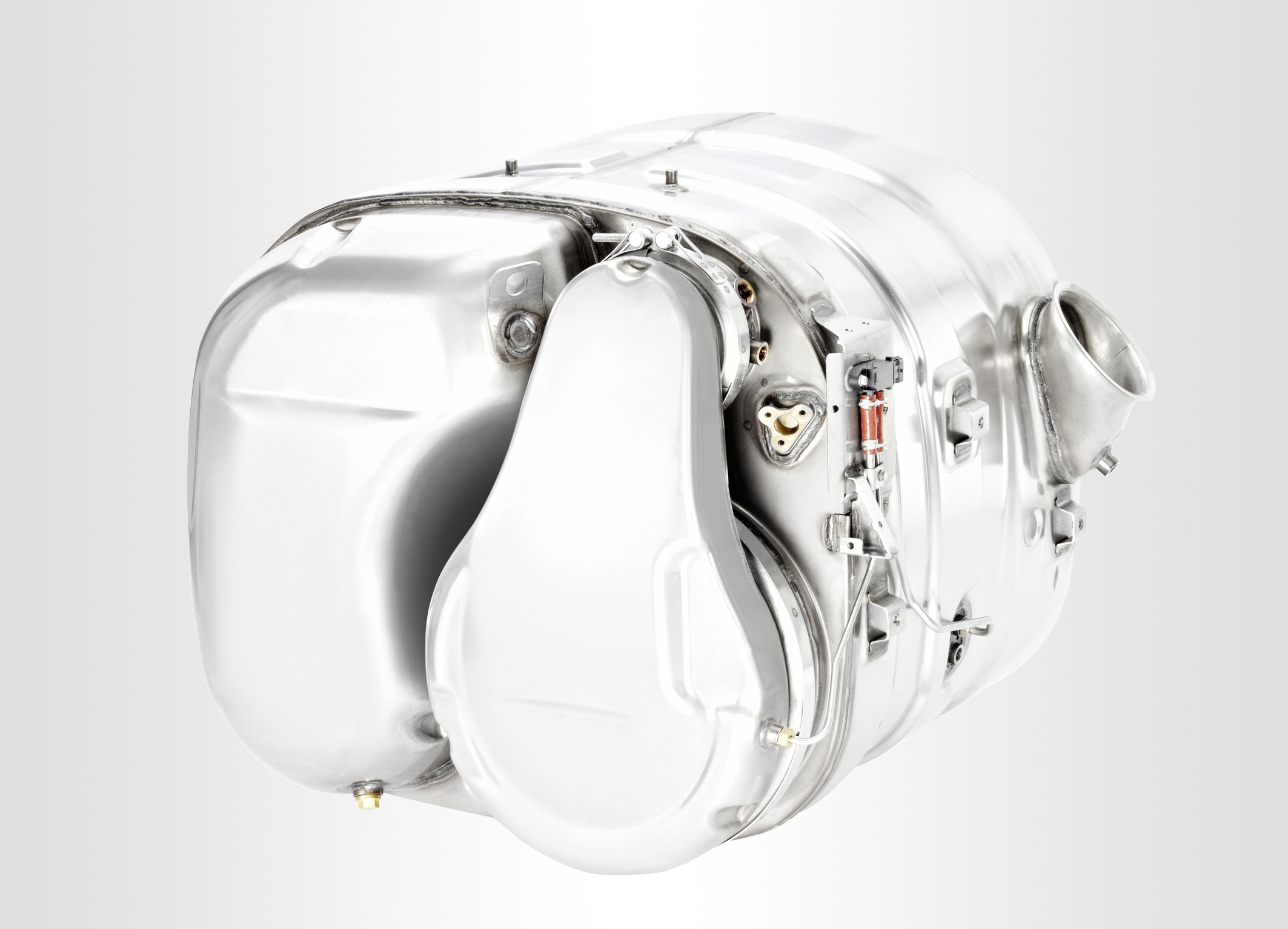 Eberspaecher Euro-6-Exhaust System for commerical vehicles